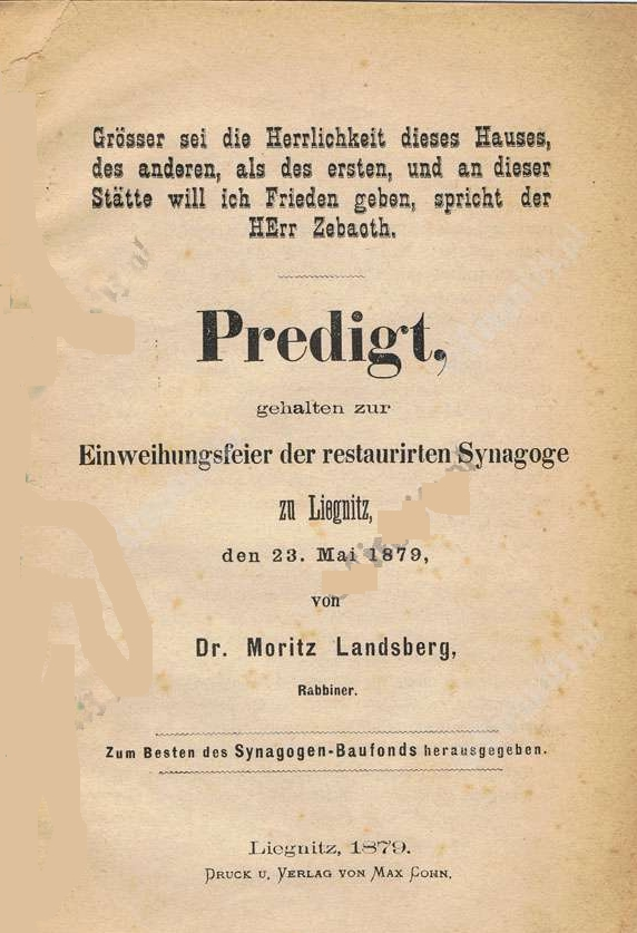 Sermon of the rabbi Dr Moritz Landsberg for the new inauguration of the synagogue after renovation in 1879. The synagogue of Liegnitz / Legnica built in 1847 . destroyed by the Nazis during th Kristalnacht in 1938